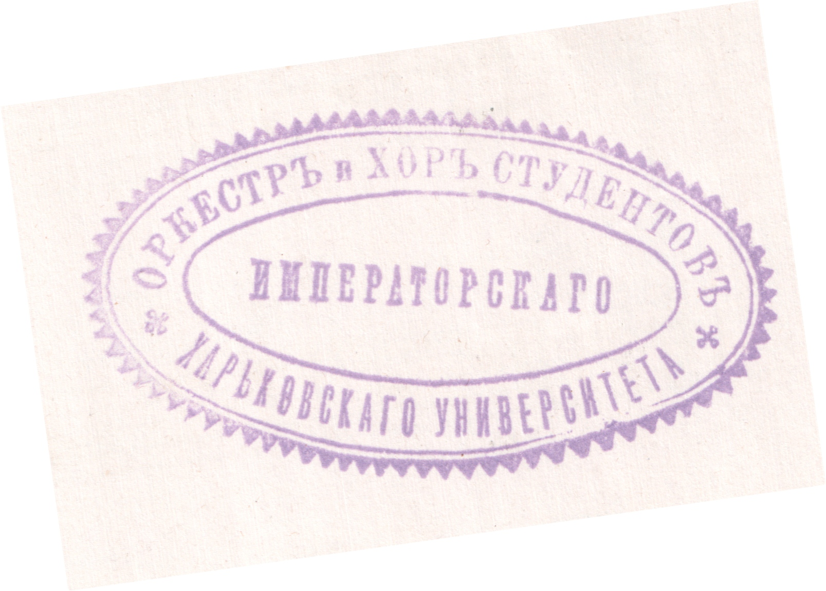 Library stamp